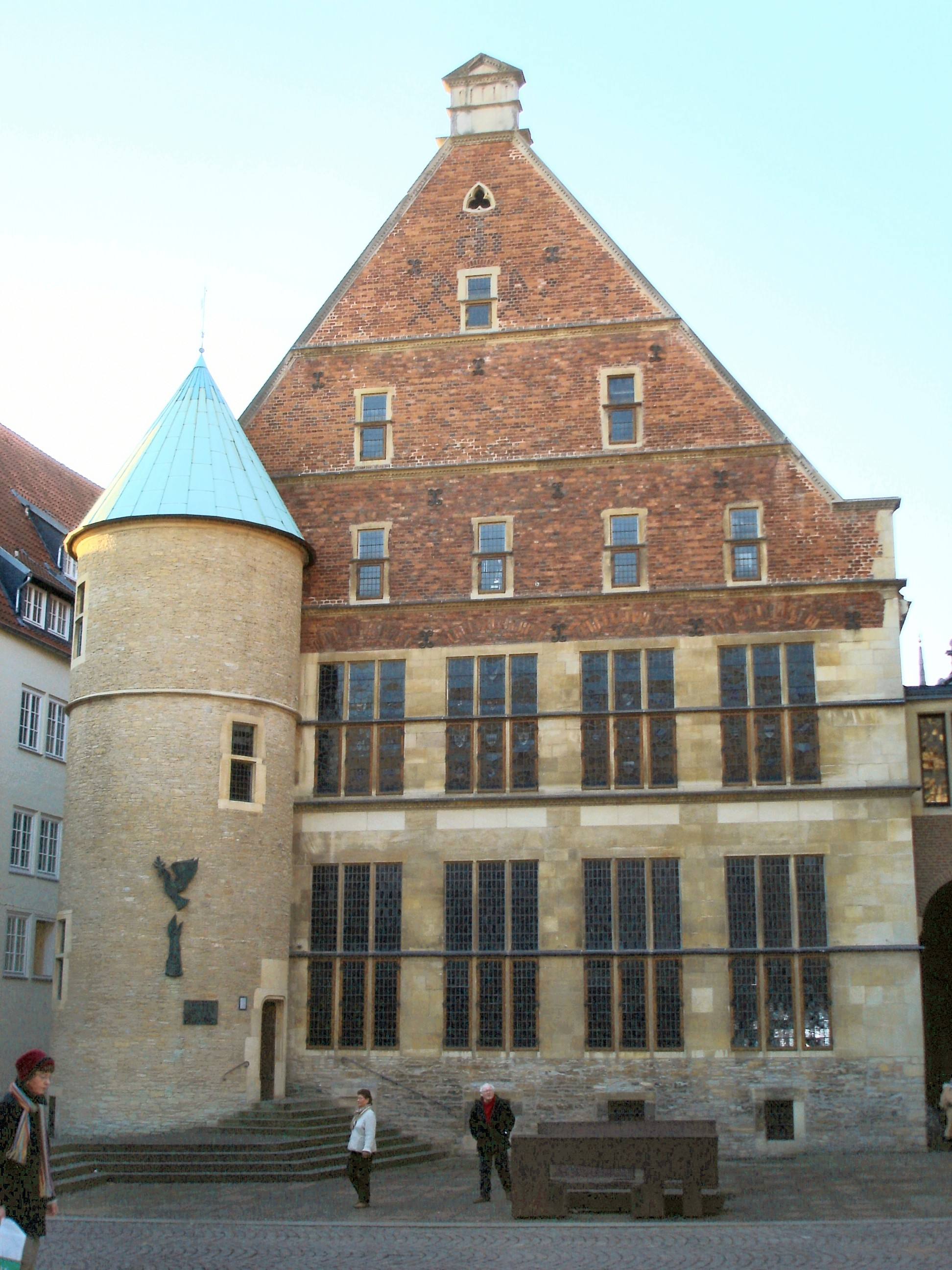 The backside of the historical city hall in Münster, Westphalia, Germany